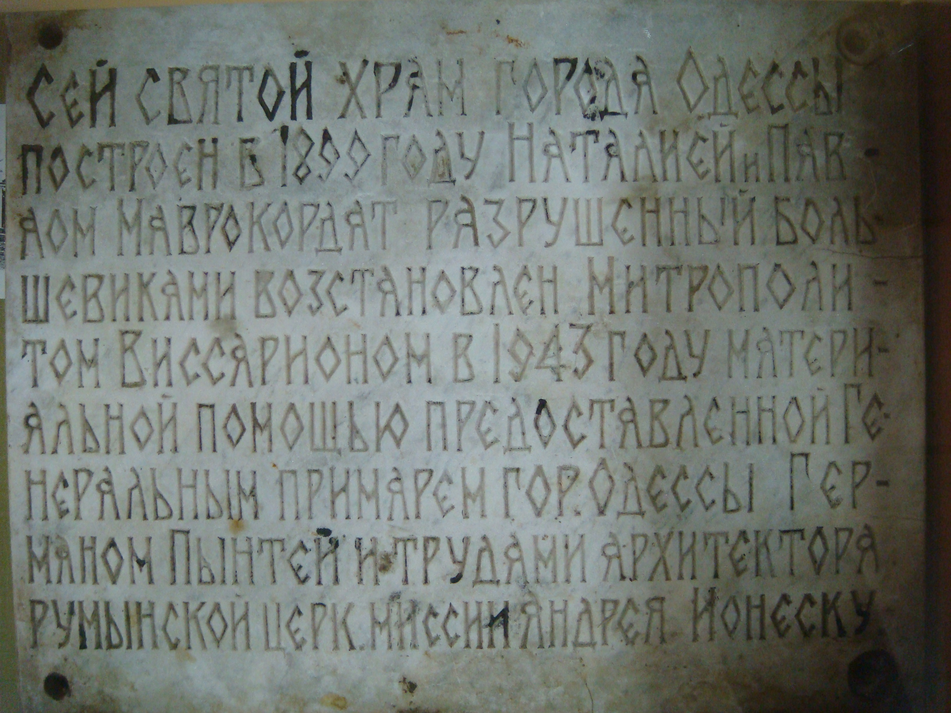 Marble commemorative plaque in the honor of reconstruction of one of Churches in 1943, during romanian occupation of Odessa. Original church, constructed in 1860-s, was destroyed by bolshevists in 1930-s.